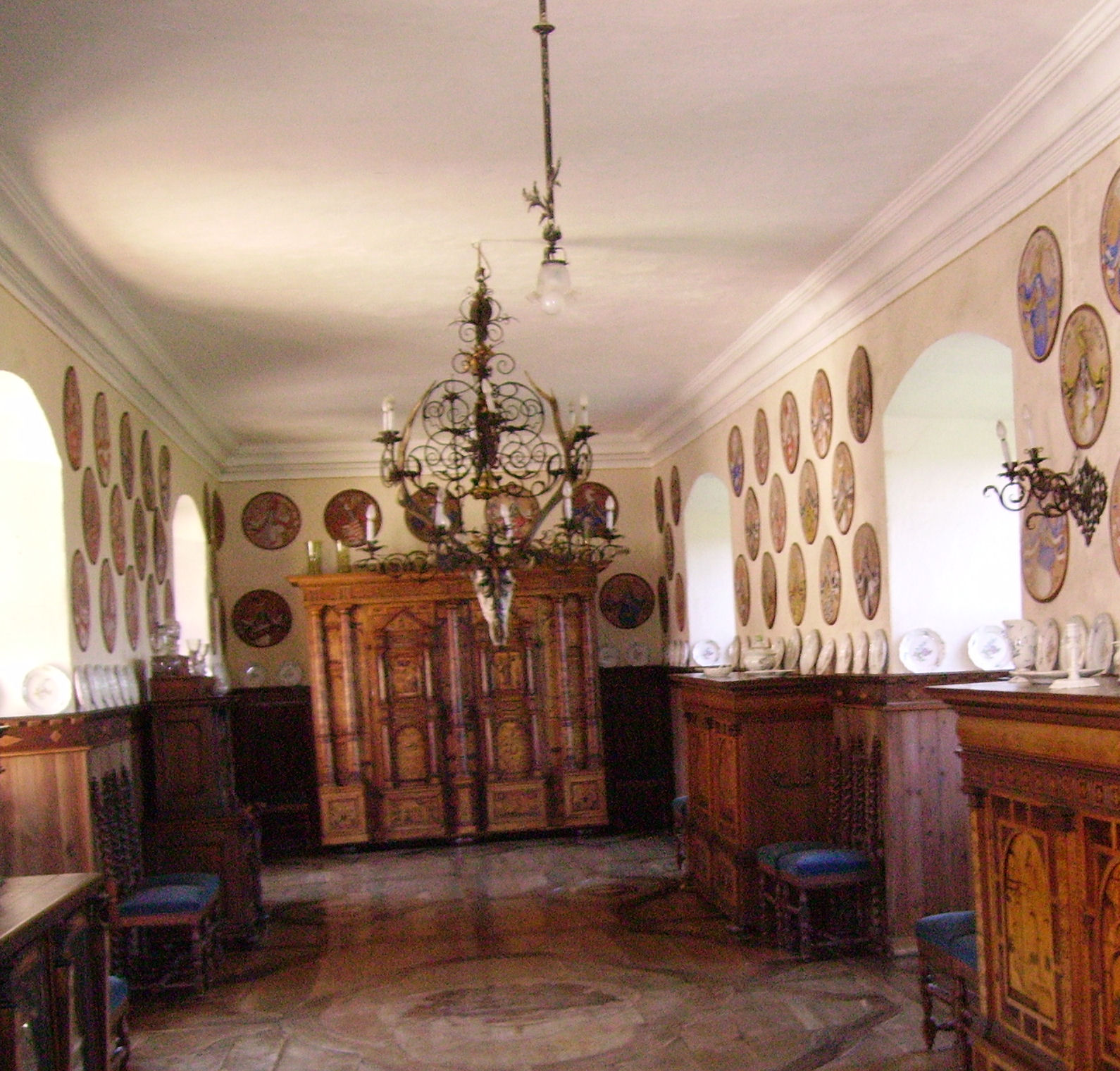 Greifenstein Castle near Heiligenstadt in (Franconia)